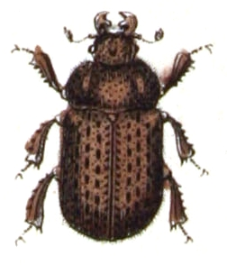 Aesalus scarabaeoides, from Calwer's Käferbuch, Table 22, Picture 26. Taxonomy was updated to 2008, using mostly the sites Fauna Europaea and BioLib. Please contact Sarefo if the determination is wrong!